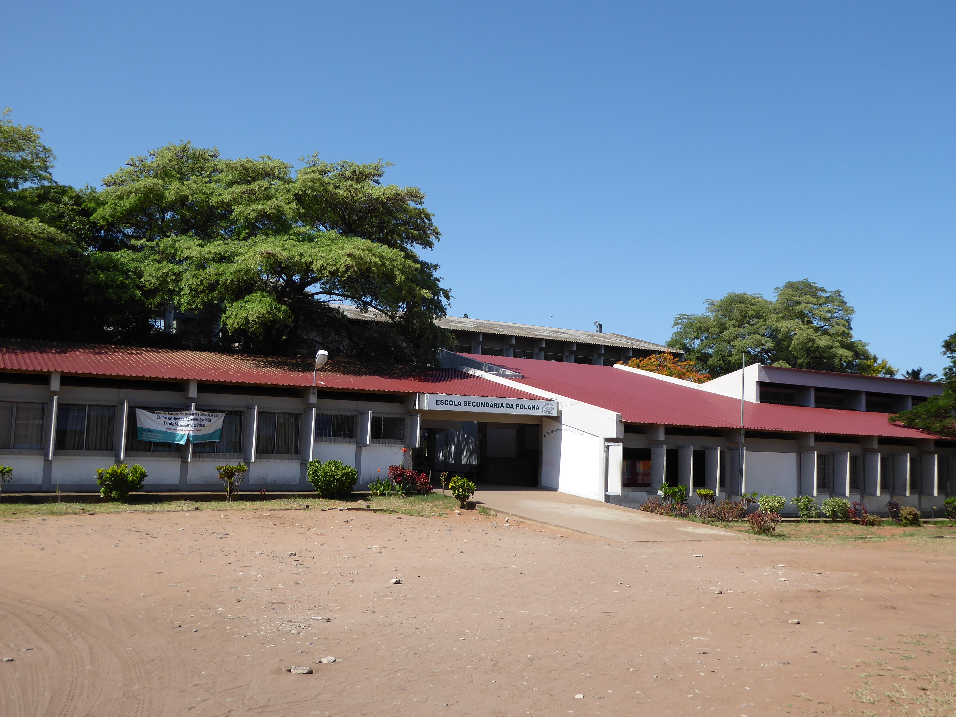 Polana Secondary School ("Escola Secundária da Polana"), Maputo, Mozambique